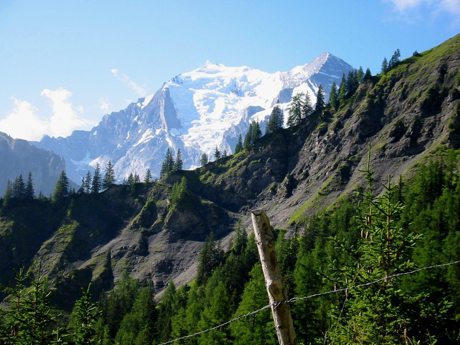 Balmhorn near Kandersteg.